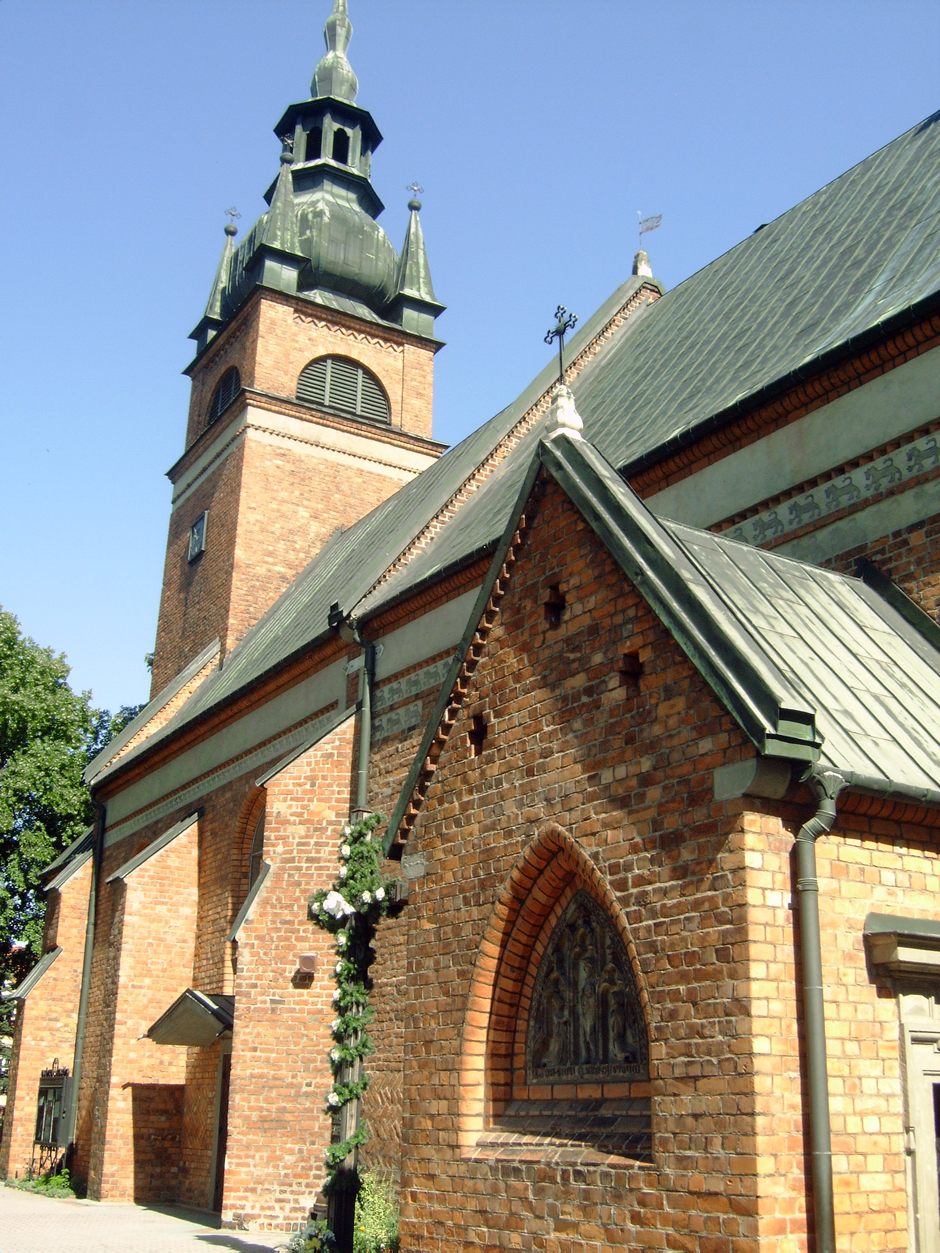 Saint John the Baptist church in Radłów, Poland